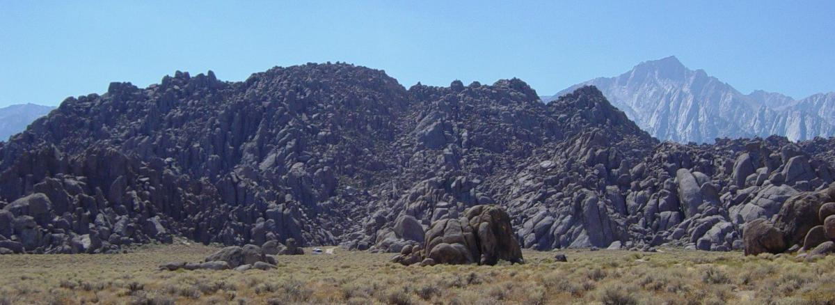 Alabama Hills, Sierra Nevada, California